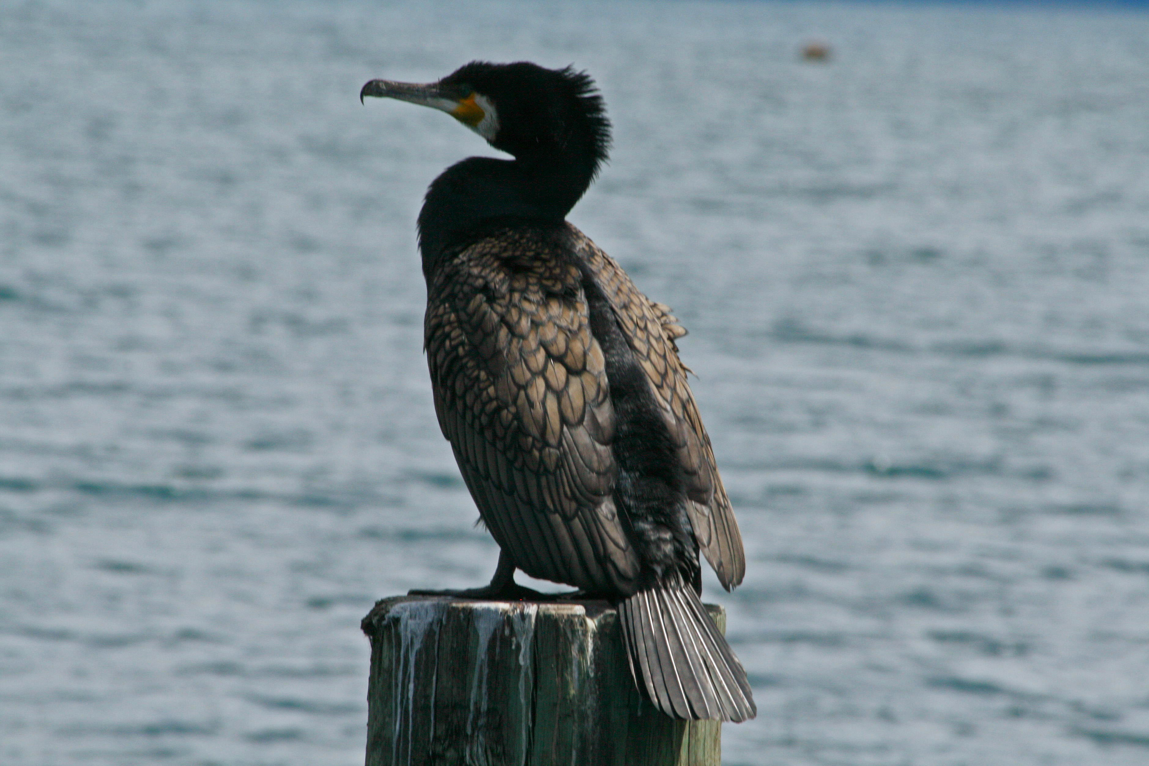 Great Cormorant (Phalacrocorax carbo) - New Zealand